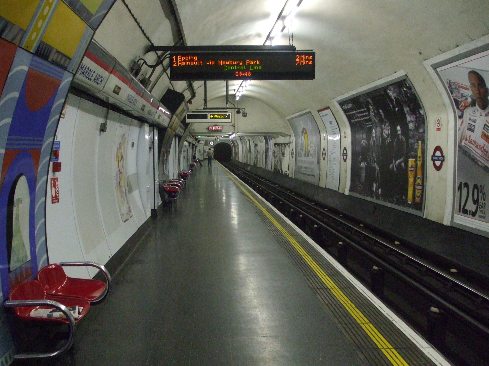 Marble Arch tube station eastbound platform looking west